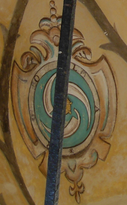 Rola coat of arms in Baranow-Sandomierski castle. Detail of Image:Baranów Sandomierski - castle 03.JPG full resolution, by User:Piotrus and tagged with the same “self2.GFDL.cc-by-sa-2.5,2.0,1.0” license.